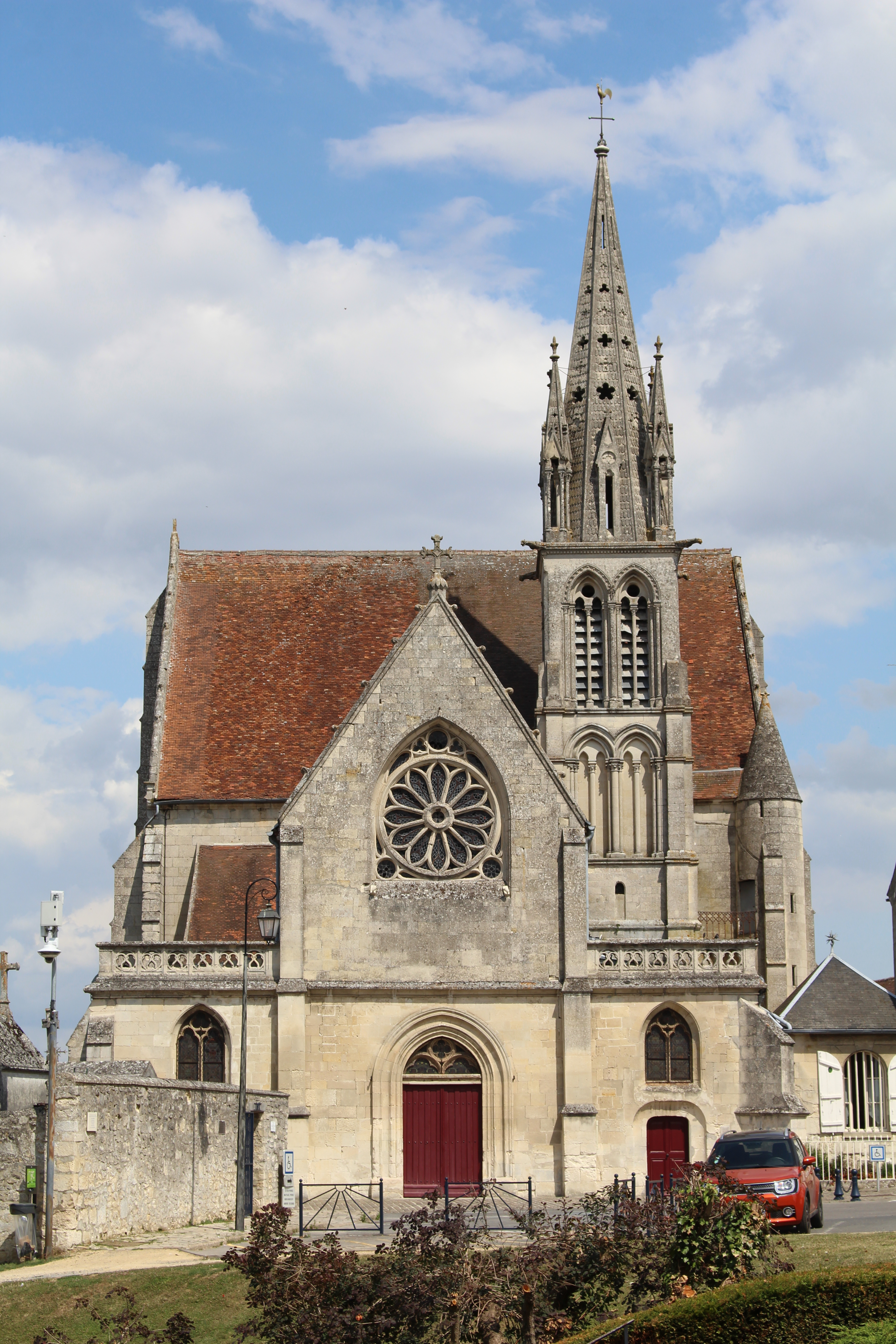 Saint Dionysius church of Crépy-en-Valois, Oise department, France.